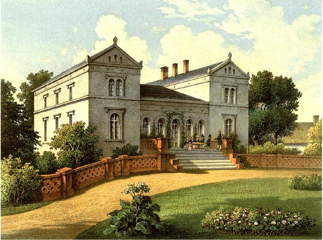 Manor in Żuchlów